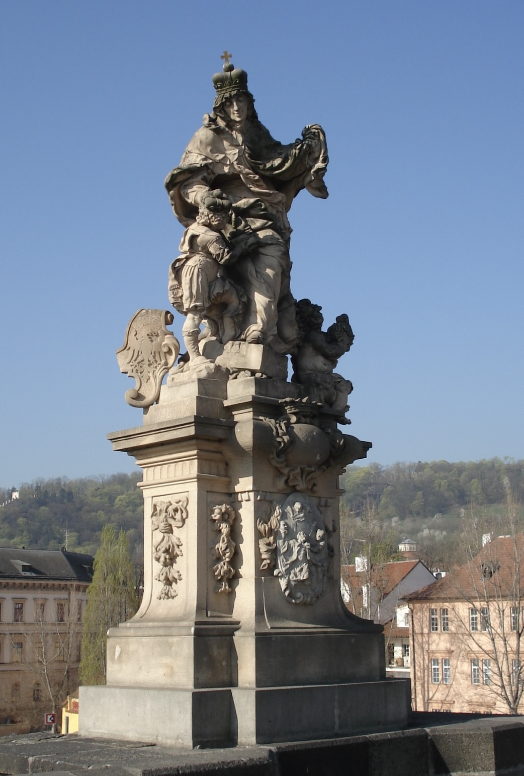 Statue of St Ludmila with young St Venceslas on Charles Bridge in Prague